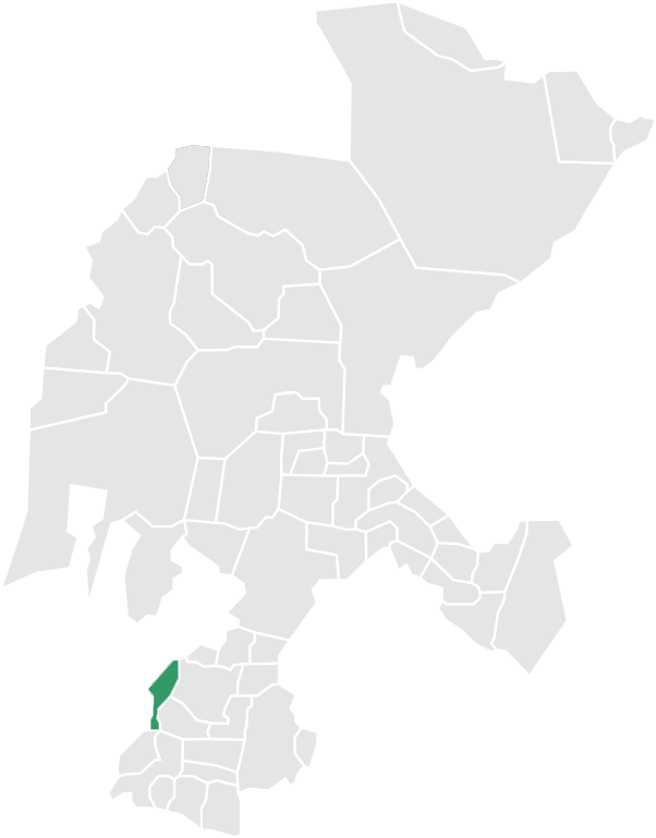 Map of the Municipality of Atolinga in Zacatecas, México.